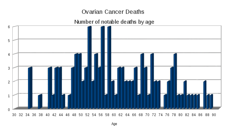 Summary reduction of data from :List of women with ovarian cancer. Intermediate data is on file talk page.